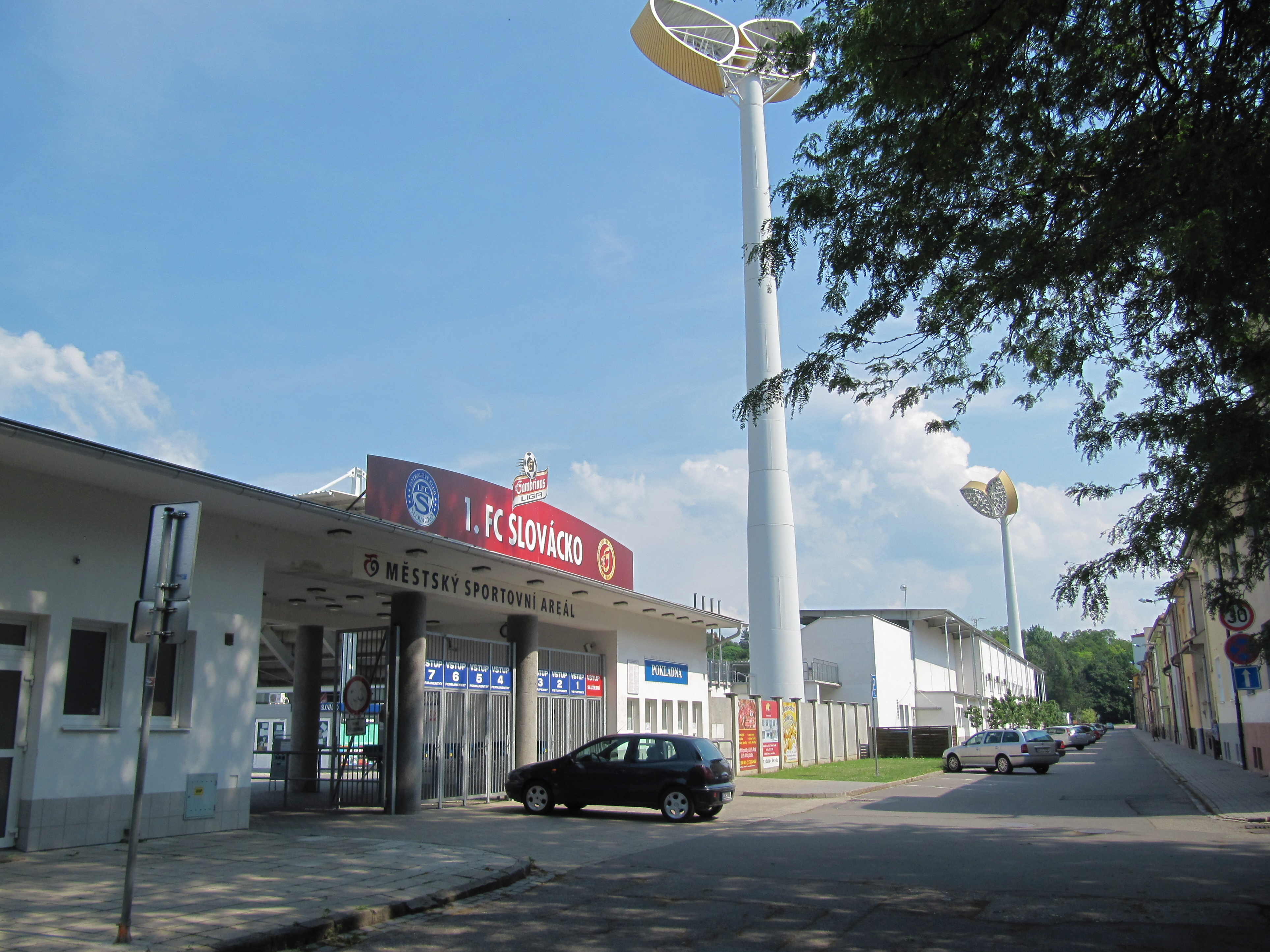 Uherské Hradiště, Czech Republic. Municipal Stadium, home ground of 1. FC Slovácko, entrance.